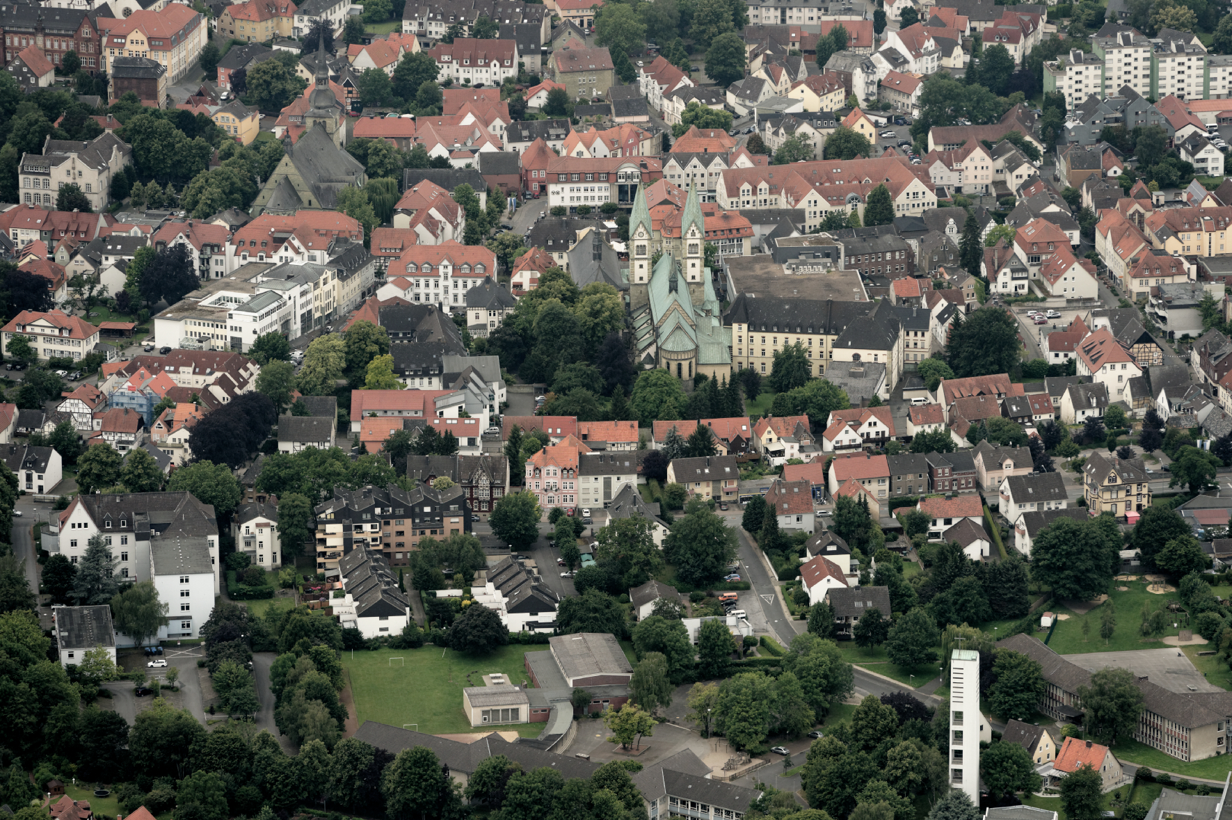 Innenstadt von Werl mit St. Walburga und Wallfahrtskirche (Fotoflug Sauerland Nord) The making of this document was supported by the Community-Budget of Wikimedia Germany.